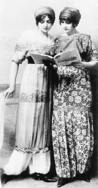 Two women dressed in sultana skirts and harem pants designed by Paul Poiret in 1911. Published in L'Illustration, 1911